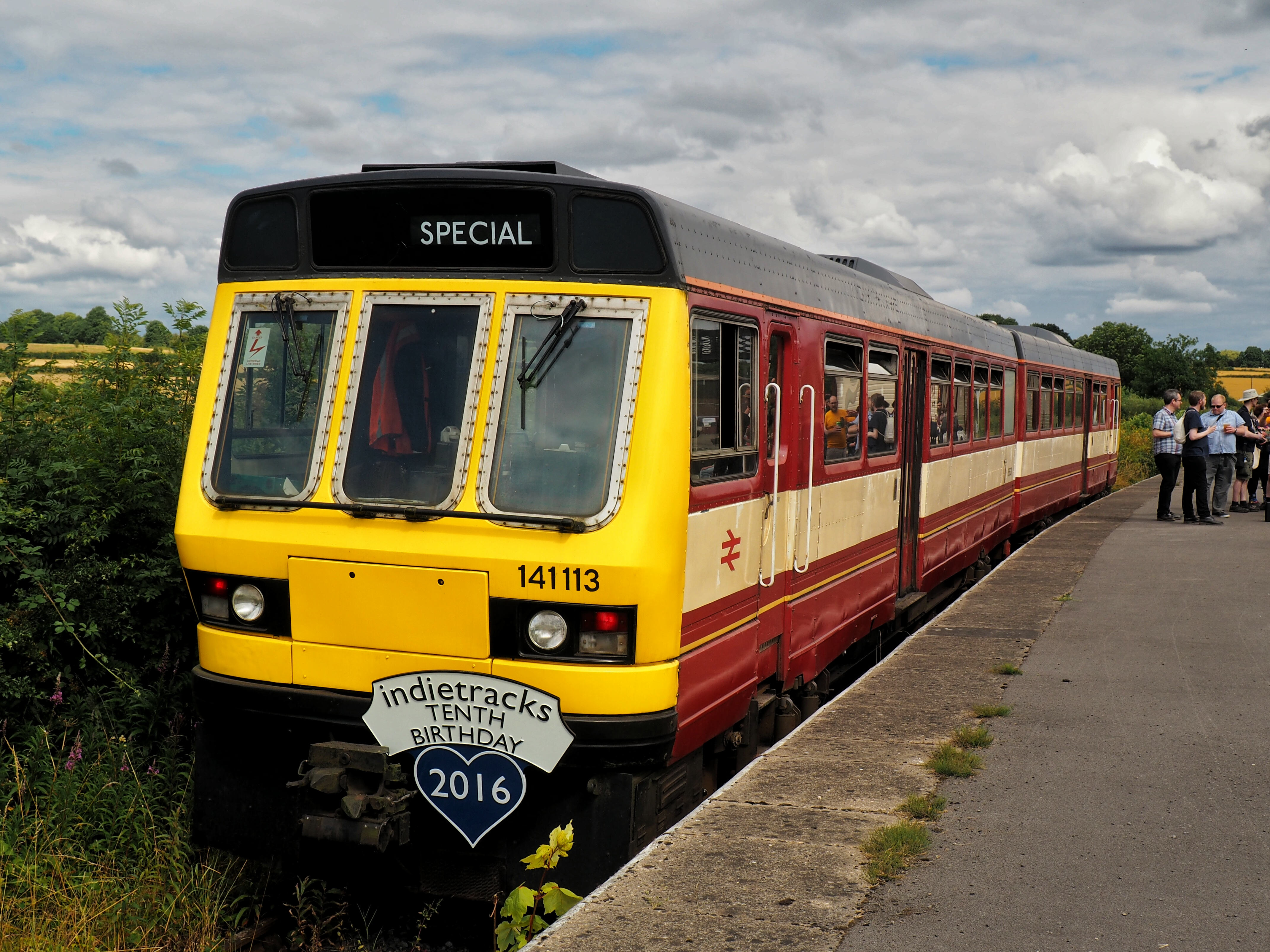 I pointed out repeatedly and no doubt tiresomely on Twitter that it's not Indietracks's 10th birthday - someone born in 2007 isn't 10 until next year! And it's a shame, because it means the real tenth birthday now can't really be celebrated next year. (Conspiracy theory: the doom and gloom merchants spreading the rumour that this year's is the last are right and the tenth birthday stuff has been done now in the knowledge there won't be a festival in 2017 - total guff, I hope!) Considerately, MJ Hibbett and Steve (in the background here) wished me a happy 10th Indietracks Anniversary as soon as they saw me.